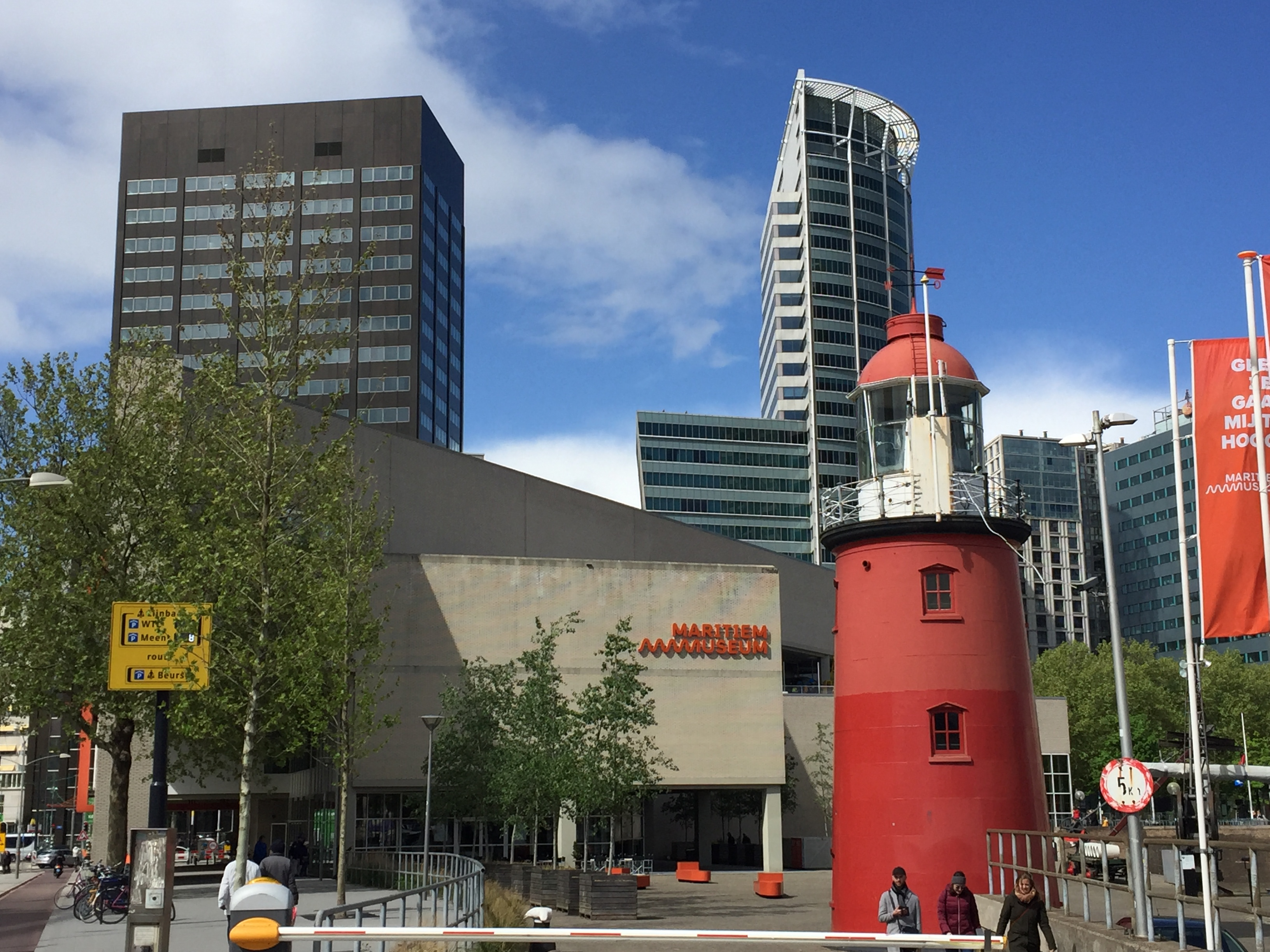 Maritime Museum Rotterdam, 4 May 2019